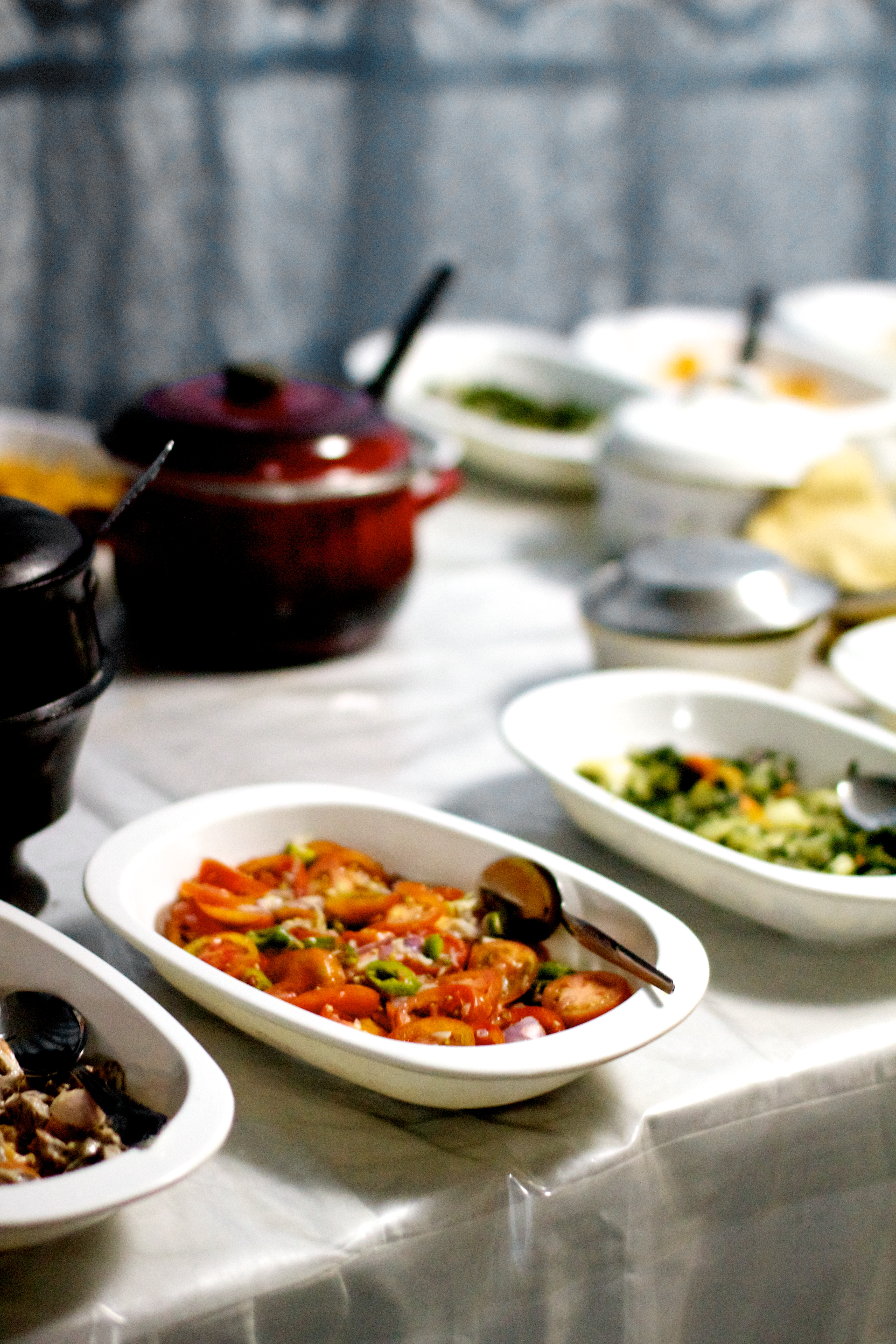 Dishes at a restaurant in Jimma, Oromia, Ethiopia.